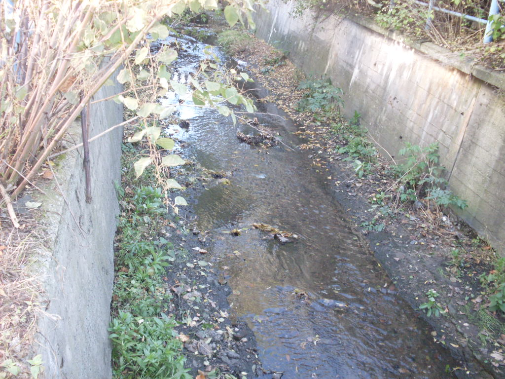 Warta in Zawiercie